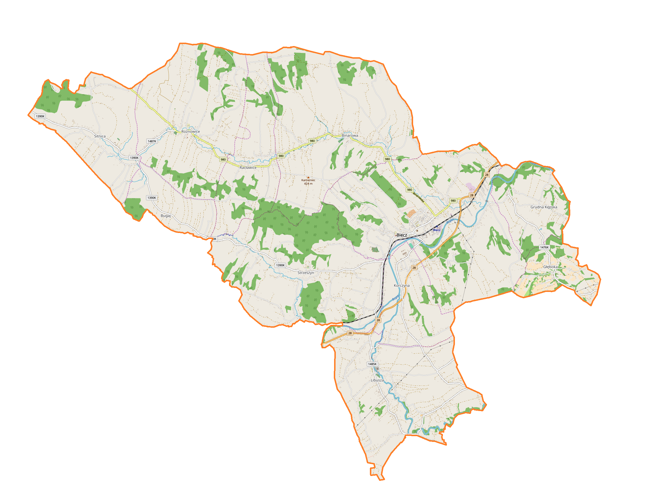 Location map